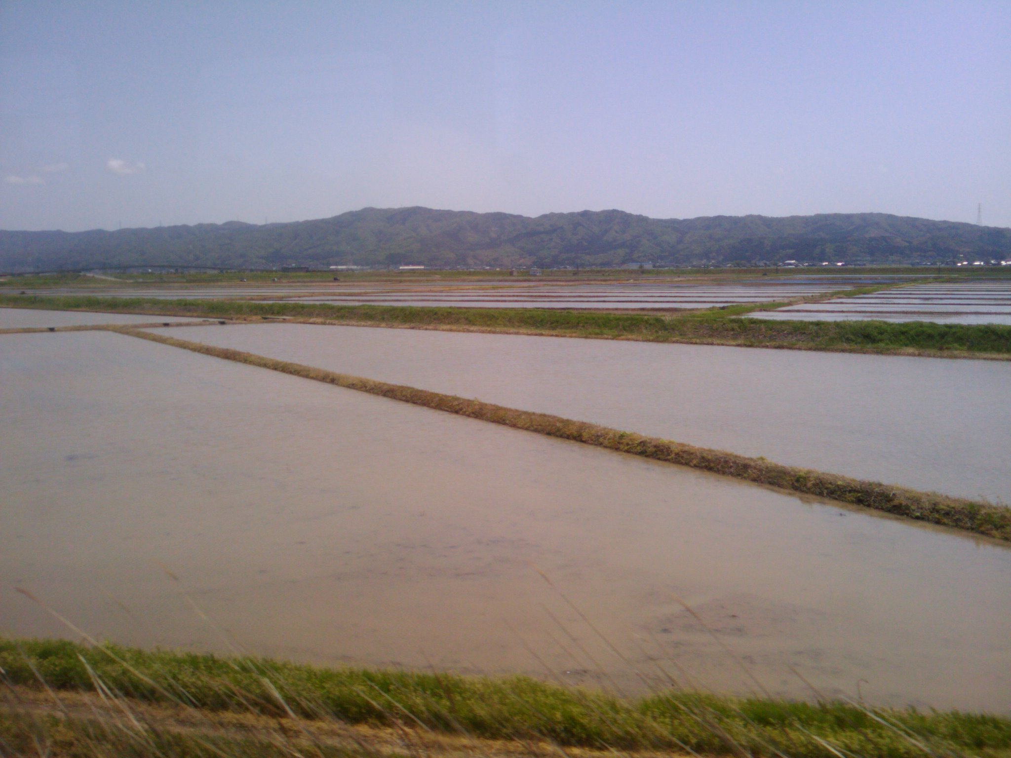 Mount Goishigamine (Hakui, Ishikawa, Japan)